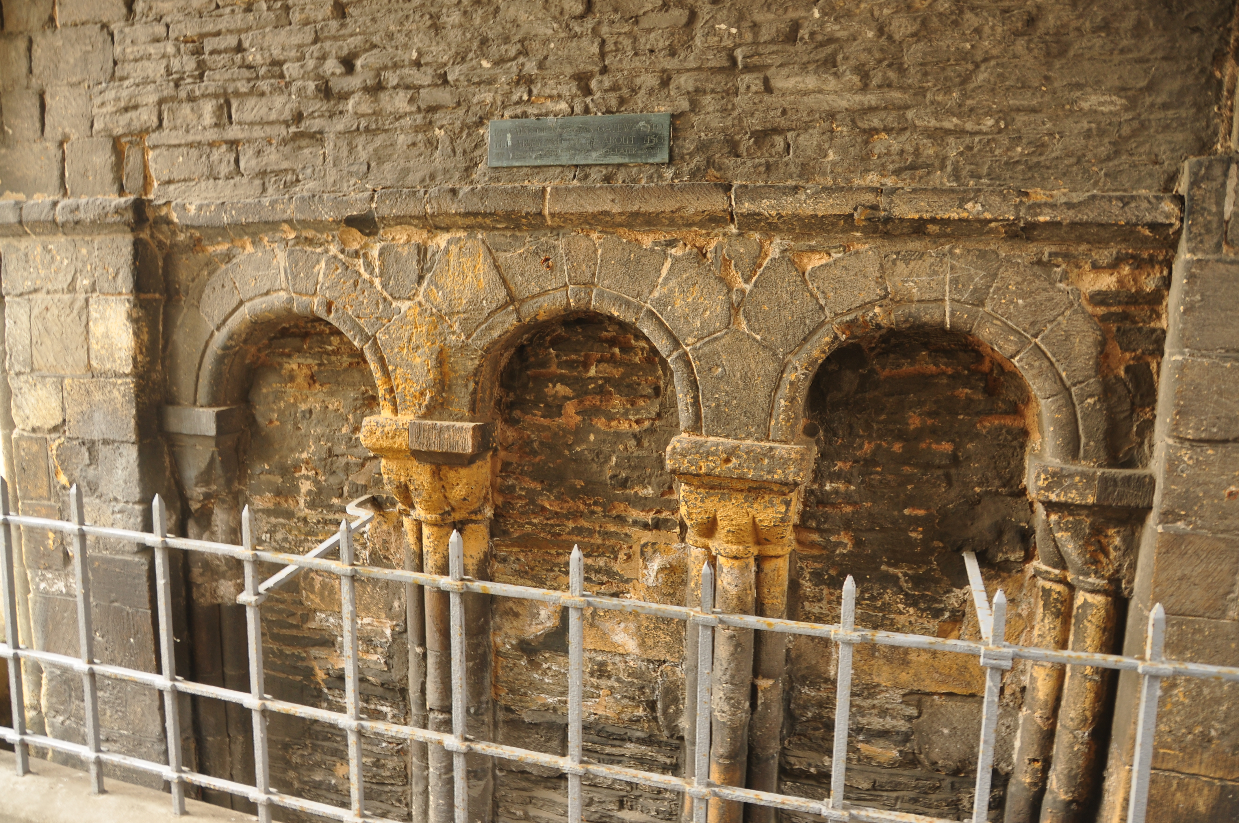 Evesham Abbey gateway